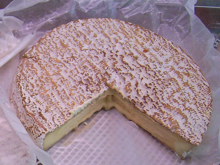 Brie de Melun is a French cheese made in the region of Île-de-France and labelled Protected Designation of Origin (PDO).